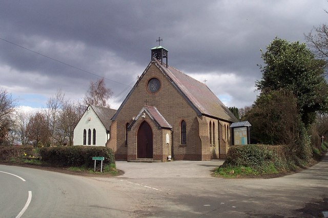 St Saviour's church, Hatherton, Staffordshire, seen from the southwest